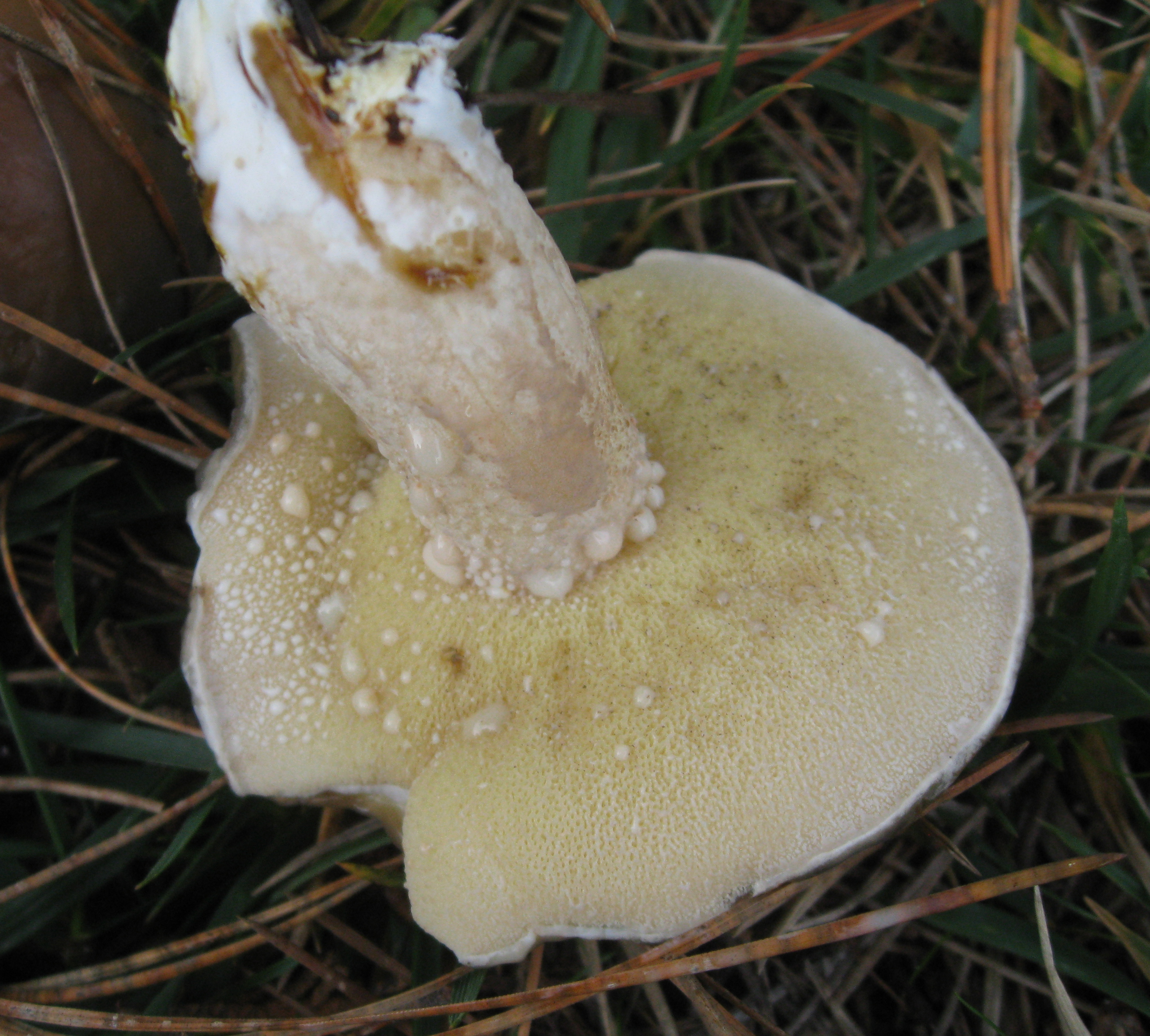 Fruit body of the bolete fungus Suillus pungens Thiers & A.H. Sm. Specimen photographed in Coastal trails, Pacifica, California, USA.